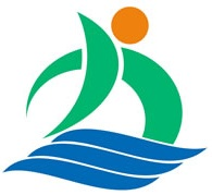 Kami Kochi chapter